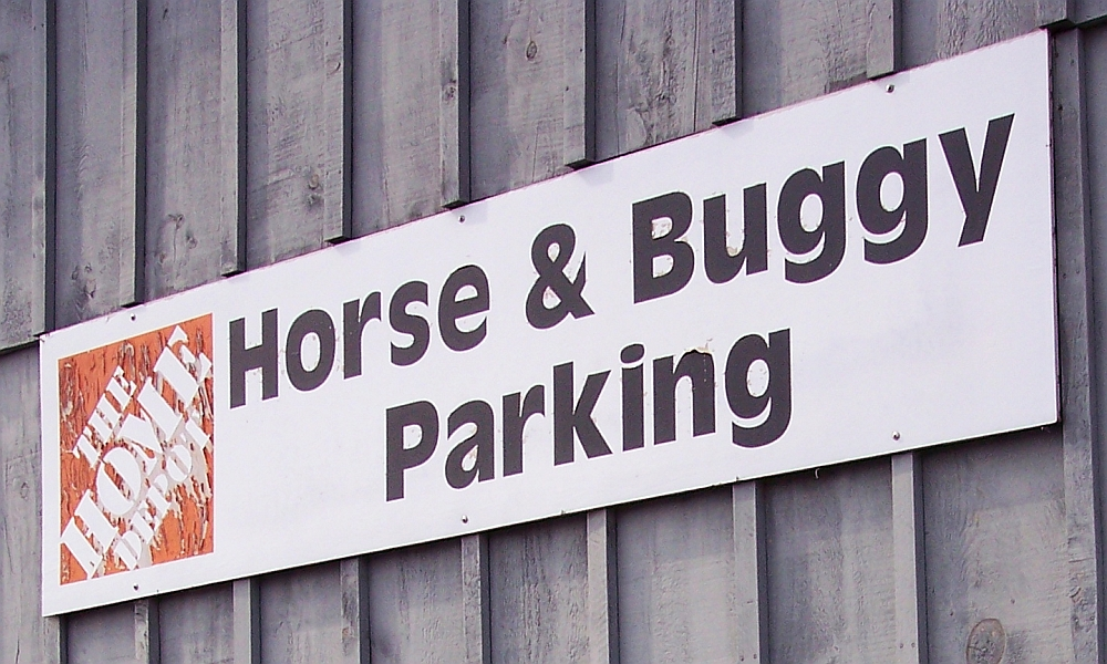 Horse and buggy parking at Home Depot in Waterloo, Ontario, Canada